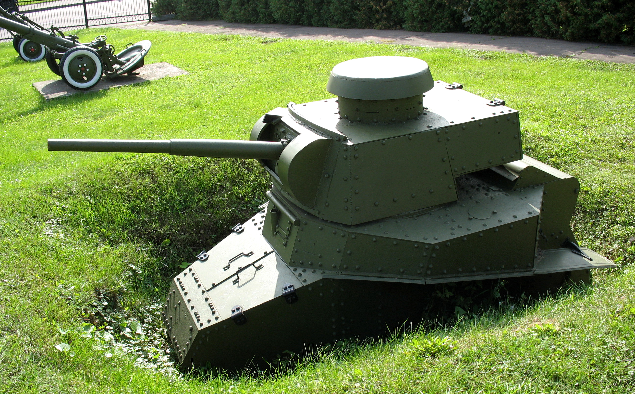 Soviet tank T-18 (MS-1) without chassis